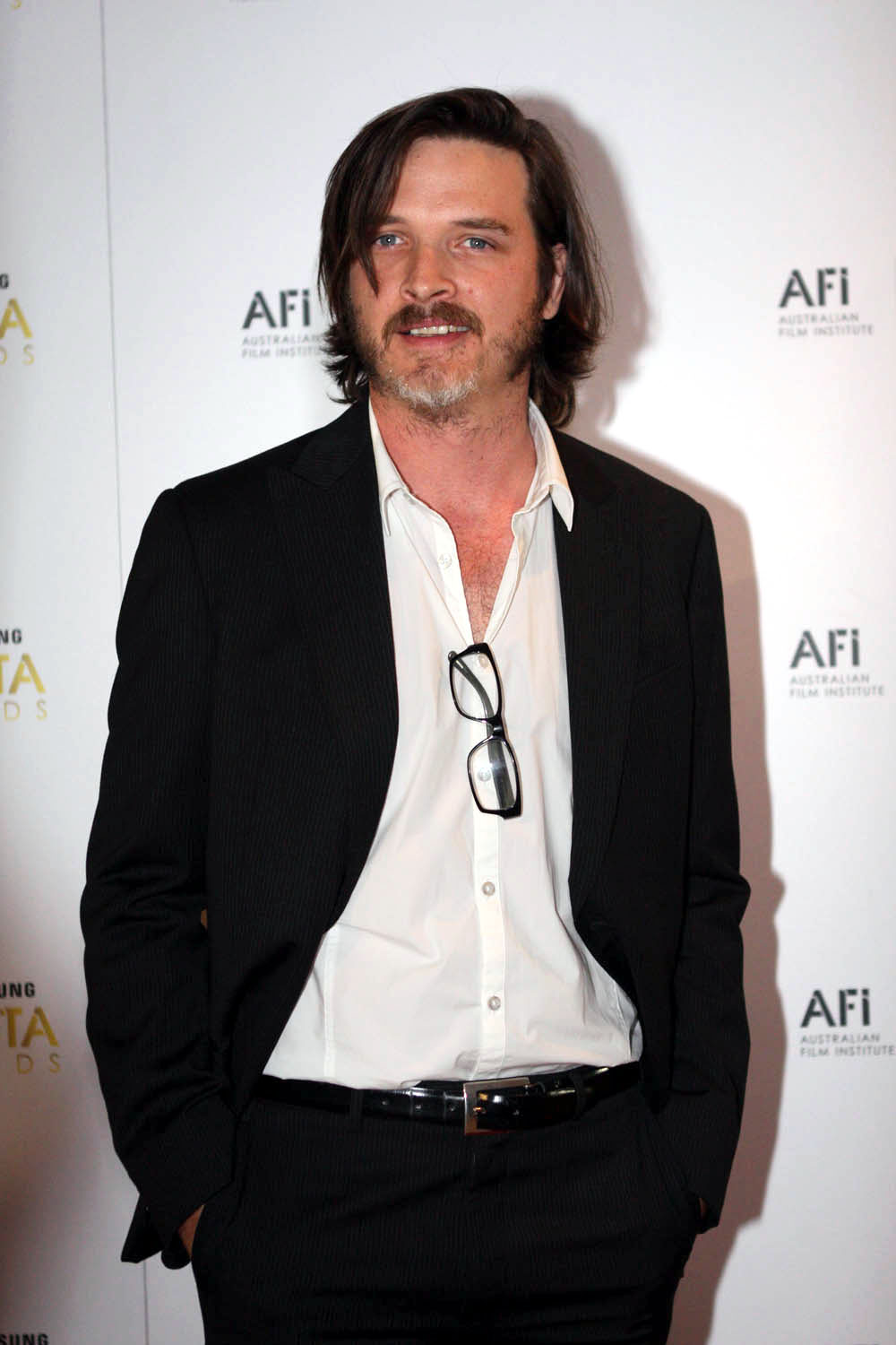 Aden Young, 2012, AACTA Awards Results From Sydney, Australia.